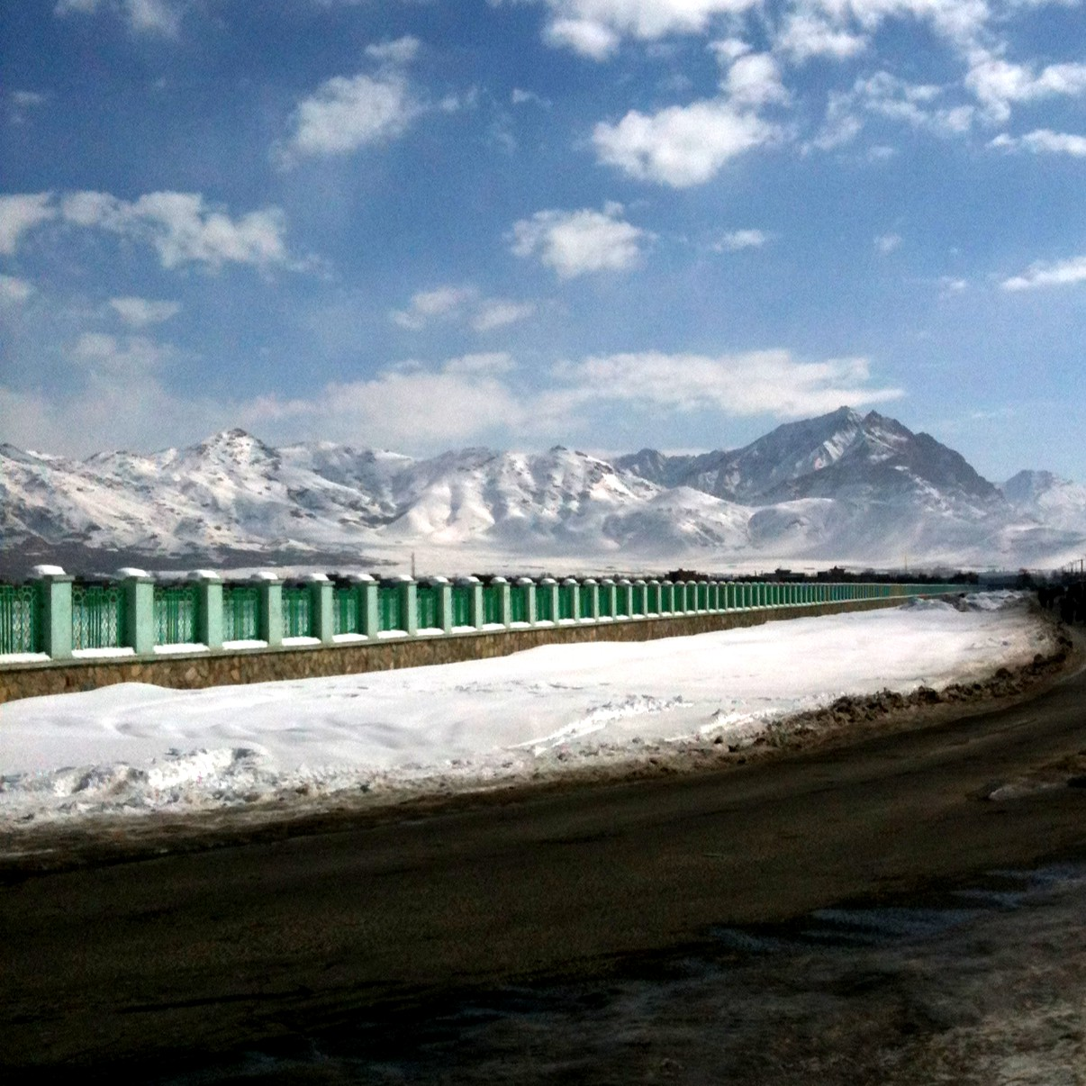 Mountains on the outskirts of Kabul, Afghanistan that surround the city